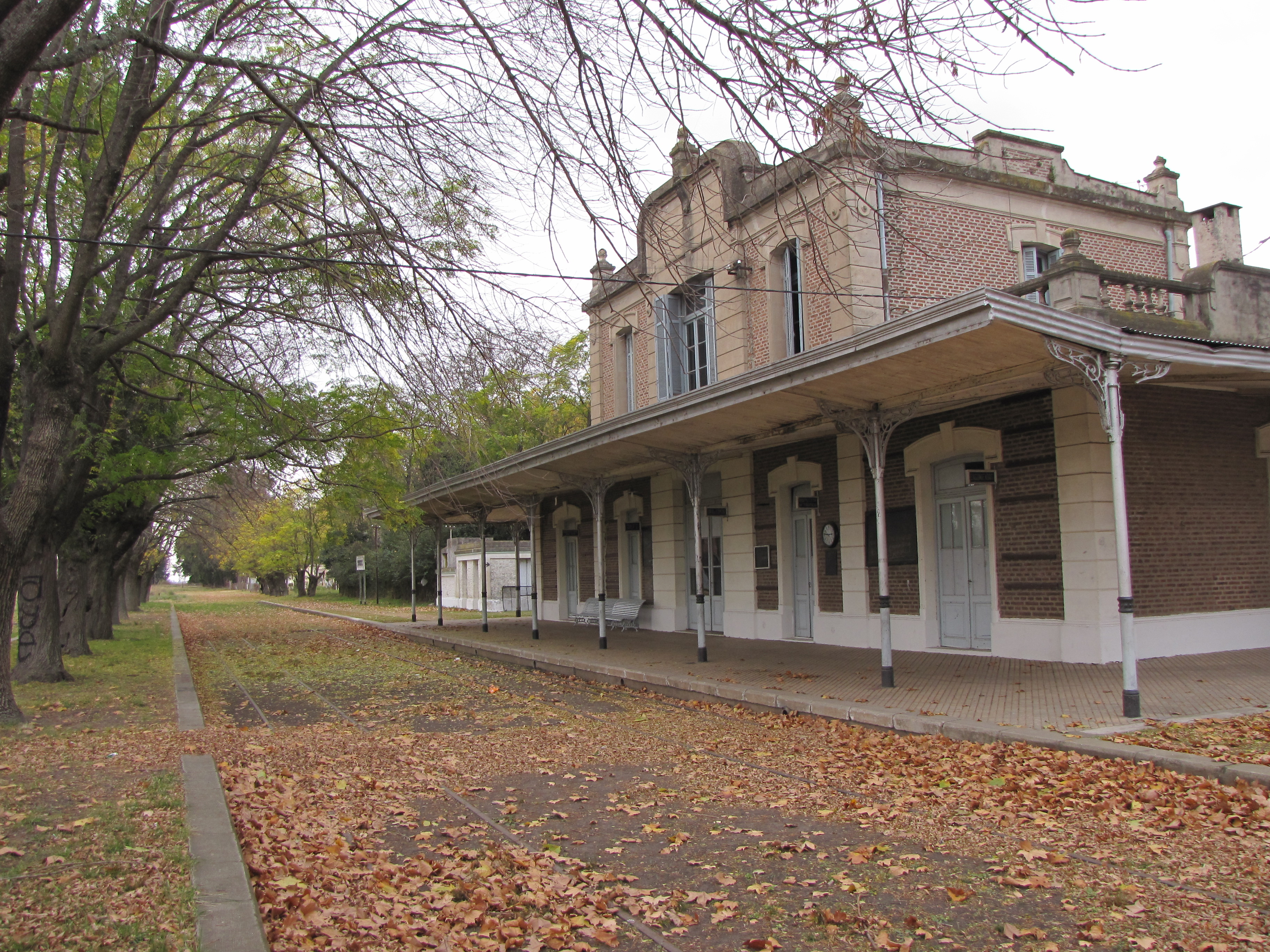 Patricios, Railway Station, Buenos Aires, Argentina.